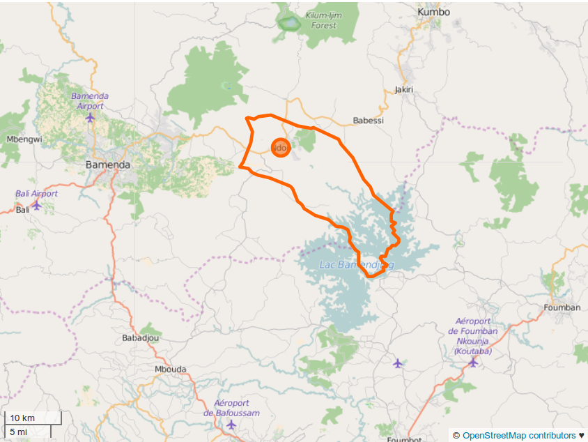 OSM map of Ndop, Cameroon ː commune boundaries. This map may be incomplete, and may contain errors. Don't rely solely on it for navigation.